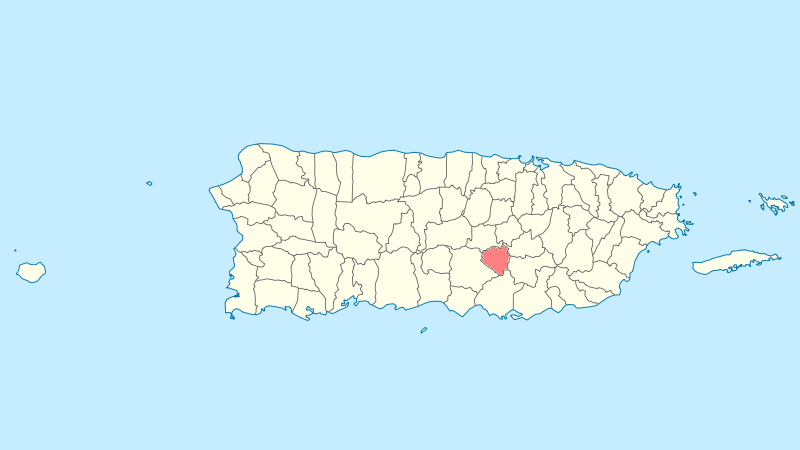 Municipal locator of Puerto Rico